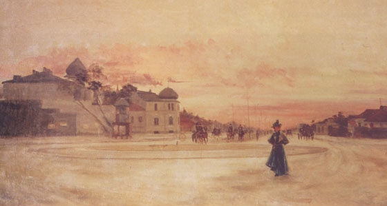 Juan Alexandru Paraschivescu - Piaţa Romană